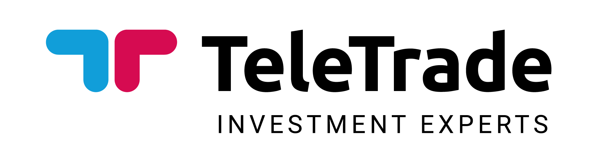 Logo TeleTrade